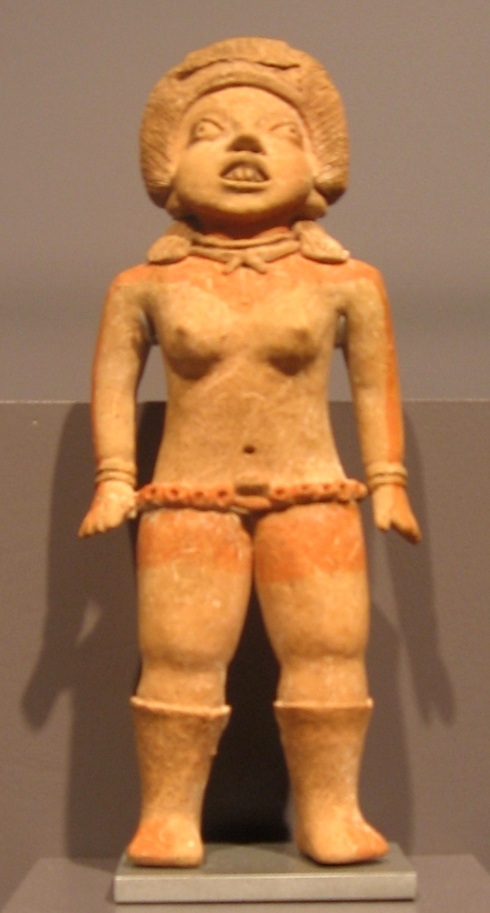 Female ballplayer figurine in the Xochipala style. Guerrero. According to the Snite Museum of Art has dated this figurine to 1000 - 800 BCE. Parson et al. have dated this to 1500 - 1000 BCE (?). Height: 8.75 in (22 cm). Unlike the Snite Museum, Parson et al. do not describe her as a ballplayer. "Body paint, in red, streaks over her shoulders and continues down her arms to the fingetips. A wide, horizontal red band encircles her upper thighs. Red patches also cover half of each foot. The most lavish attention has been paid to the striated coiffure. A central lock of hair surmounts the head, with bow-shaped openings over the forehead and also at the back of the head. A pair of tresses falls over the shoulders, and a long, tapering queue trails down her back to the base of her spine." Parsons et al., p. 176.